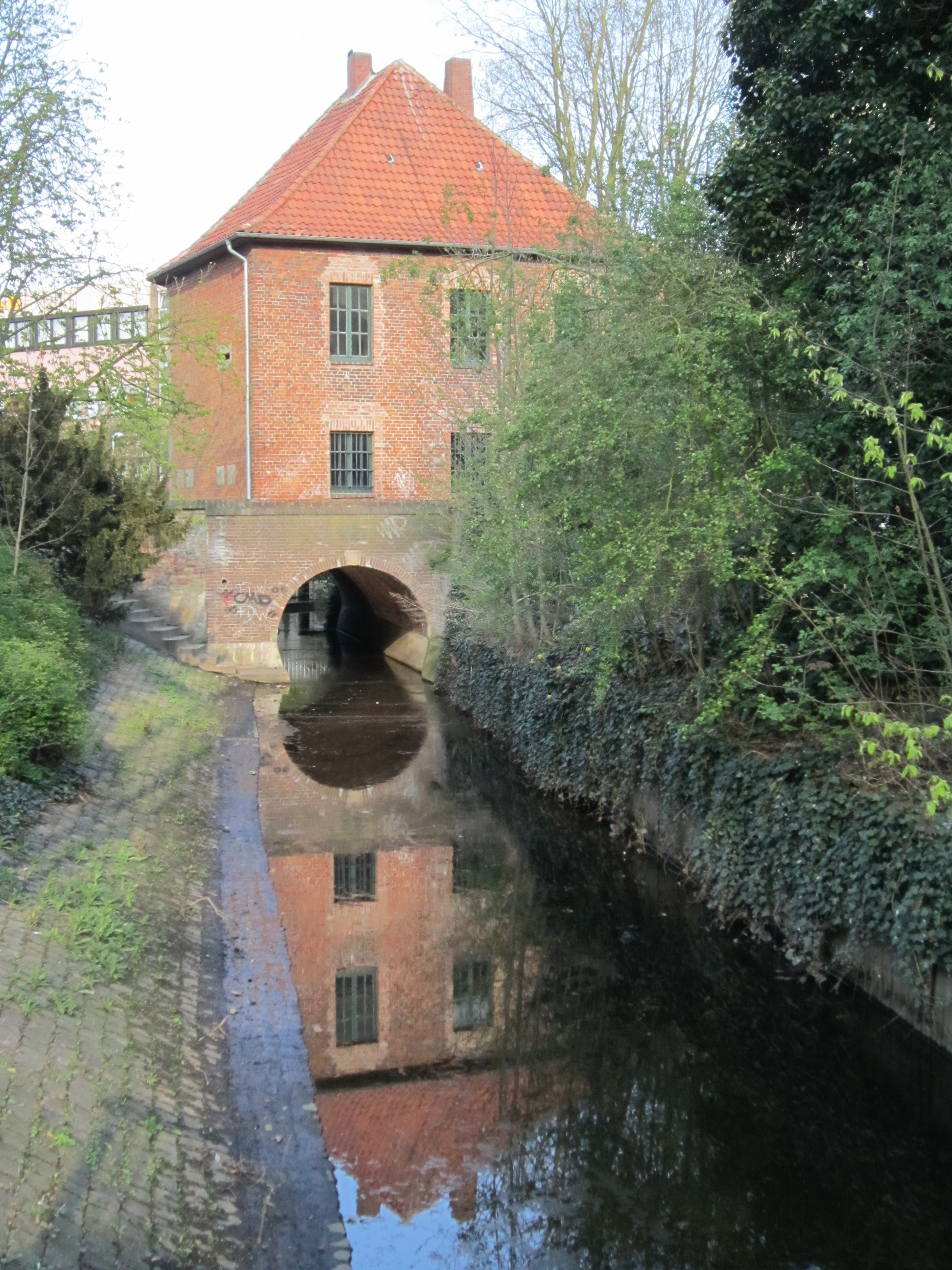 Caponniere and Moorbach in Vechta centre